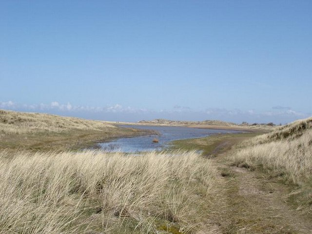 Gronant sand dunes Water inlet running through the dunes near Gronant